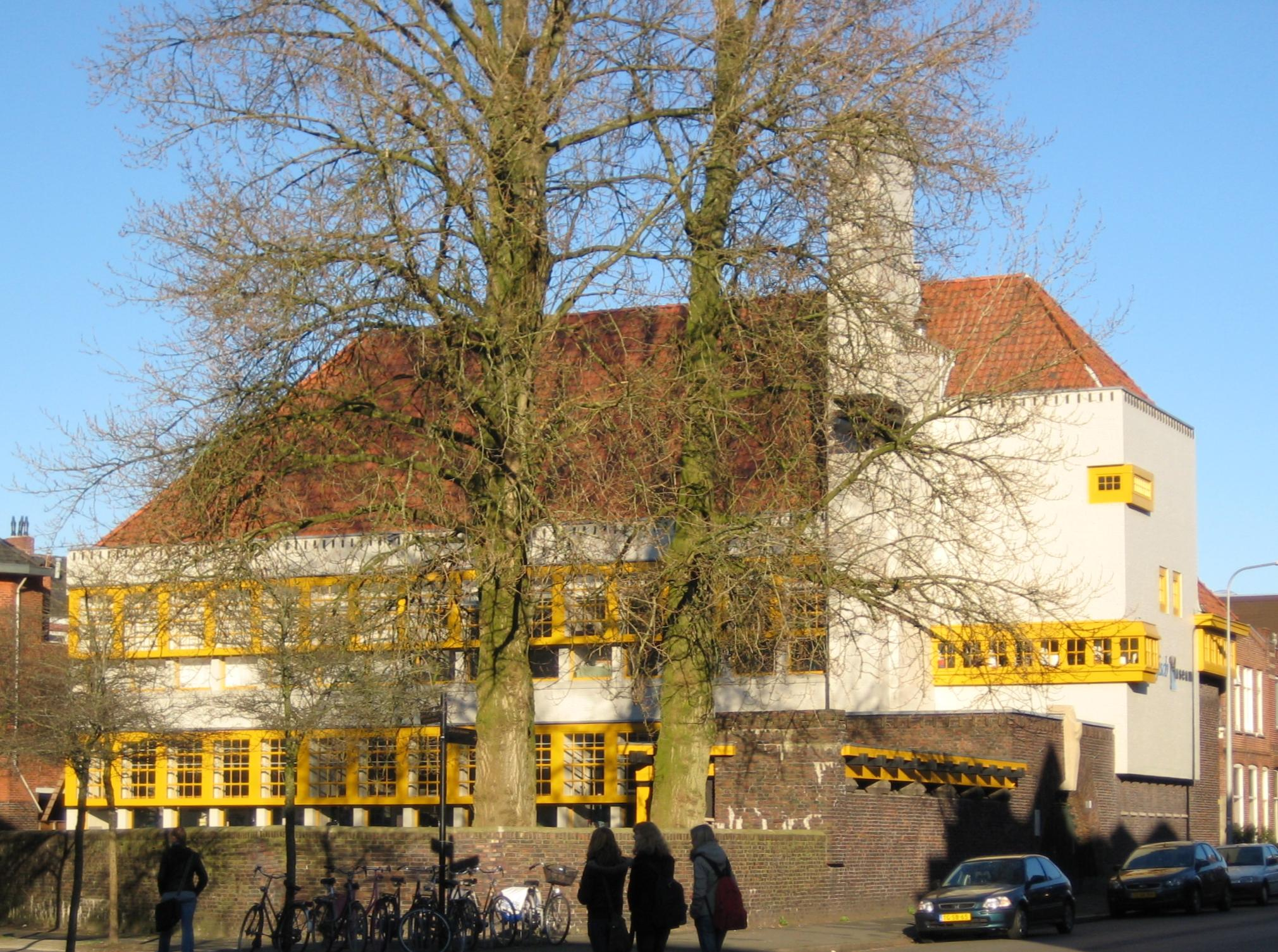 The Grafisch Museum Groningen, Groningen, NL